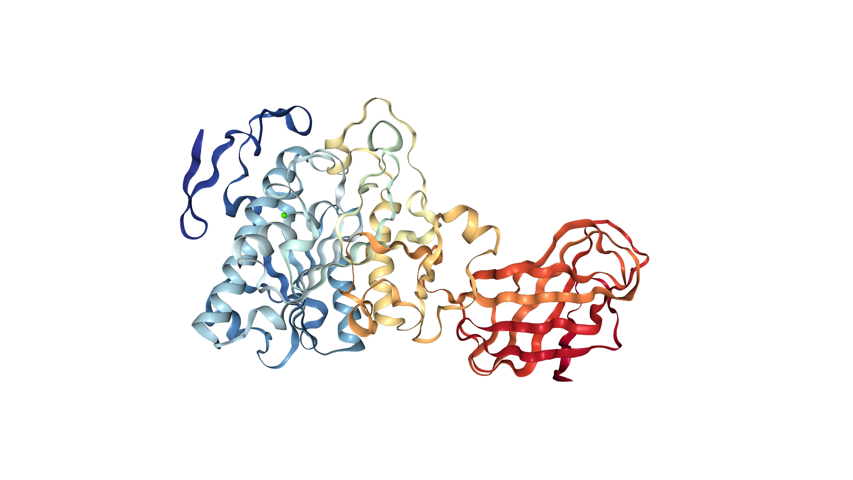 The structure of horse pancreatic lipase; similar amino acid sequence as human hepatic lipase, believed to have similar structure